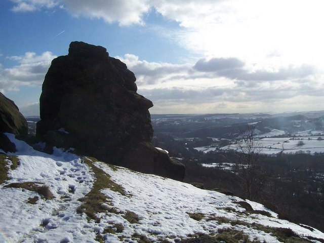 Head shaped rock on Froggatt Edge A rock formation dreaming of warmer weather perhaps ?